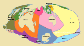 Tectonic plates map, with preserved surfaces